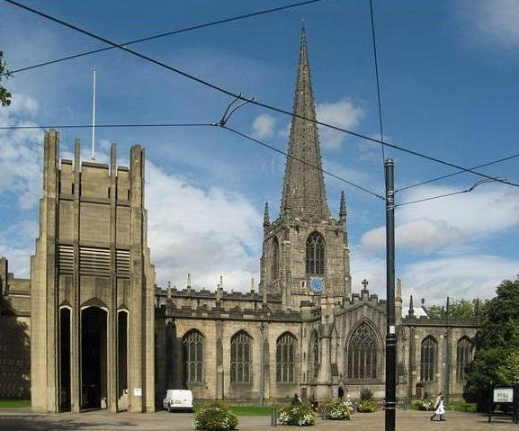 The Anglican Cathedral Church of St Peter and St Paul, Sheffield, South Yorkshire, England. There has been a church on this site since Saxon times. It has always been a parish church, and since 1914 it has been the Cathedral Church of the Diocese of Sheffield. It is Grade 1 Listed. Official website